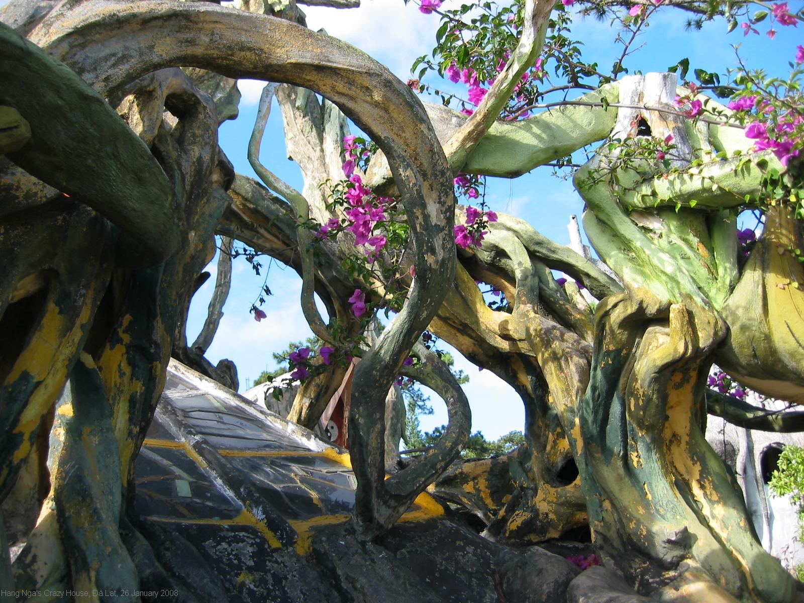 Hang Nga's "Crazy House" in Dalat, Vietnam